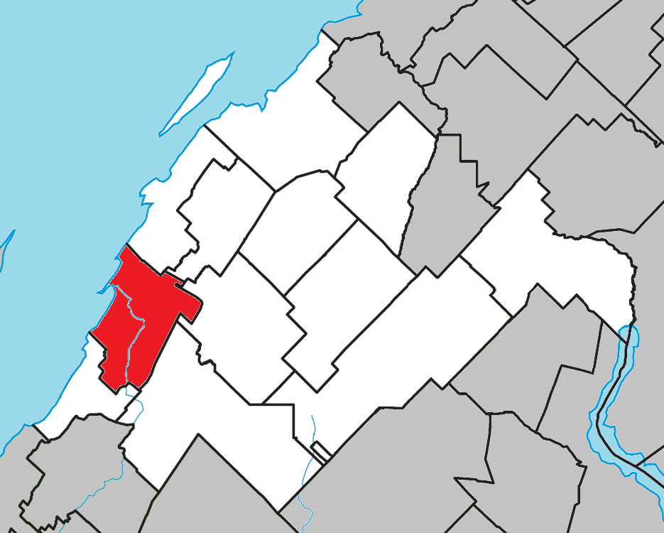 Location of Rivière-du-Loup, Quebec within Rivière-du-Loup Regional County Municipality.